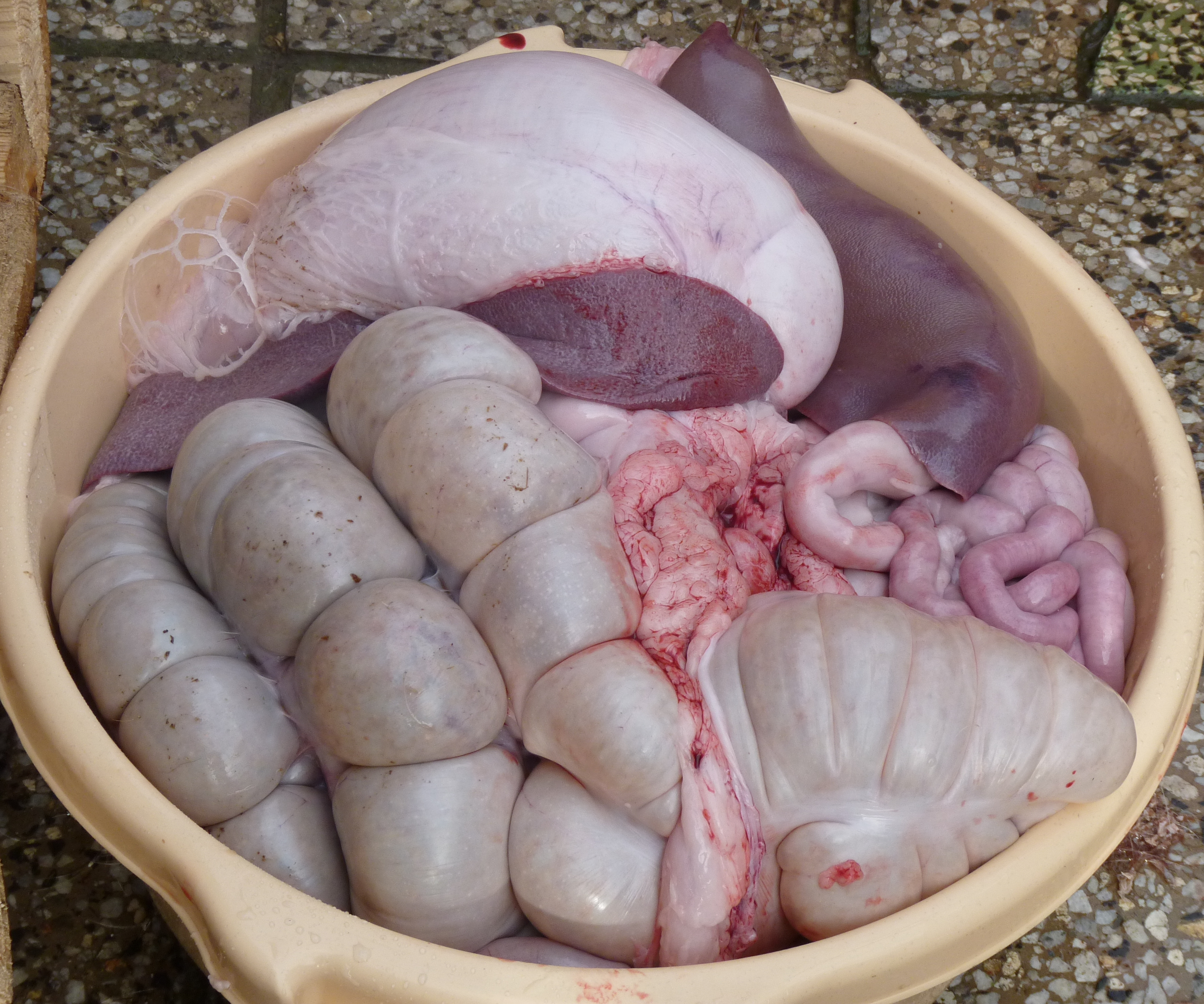 Pig slaughter in the Czech Republic